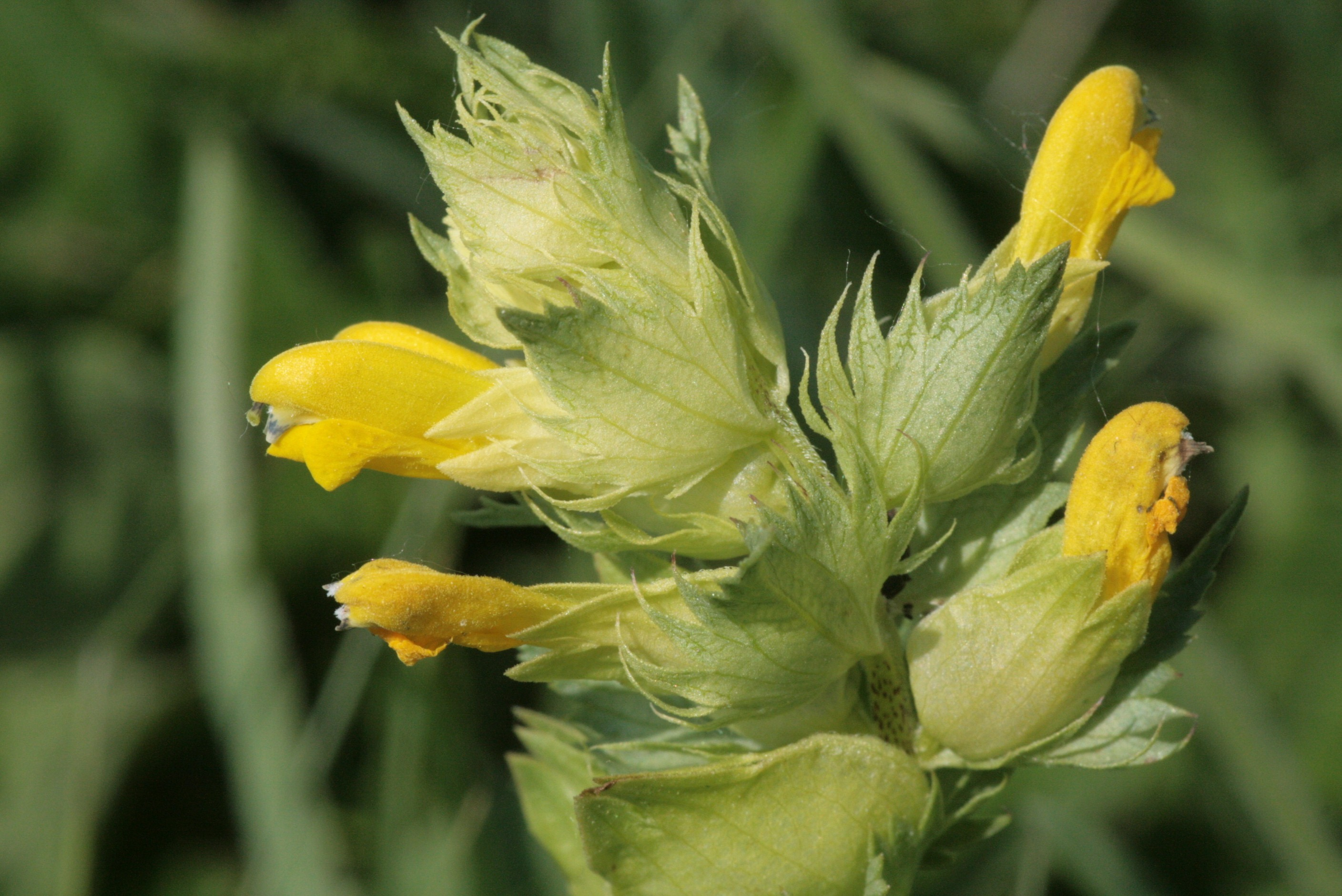 Rhinanthus serotinus